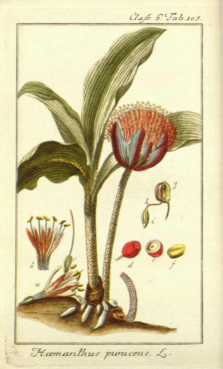 "Dreyhundert auserlesene amerikanische Gewaschse nach Linneischer Ordnung".By:Zorn, Johannes,1739-1799.Jacquin, Nikolaus Joseph,Freiherr von,1727-1817.Publication info:Nu?rnberg :Auf Kosten der Raspischen Buchhandlung,[1785]-1789. 1786